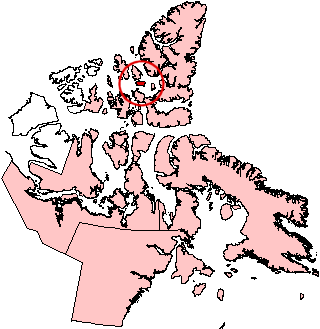 Isla Cornwall, Canadá